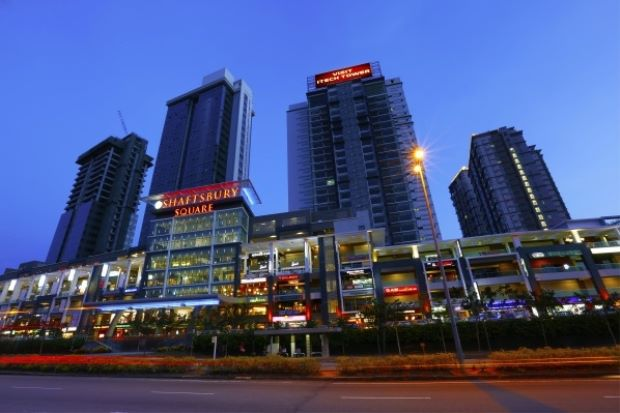 Shaftsbury Square, Cyberjaya